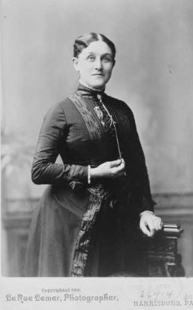 Three-quarter length portrait photographic portrait of Rebecca Wright Bonsal